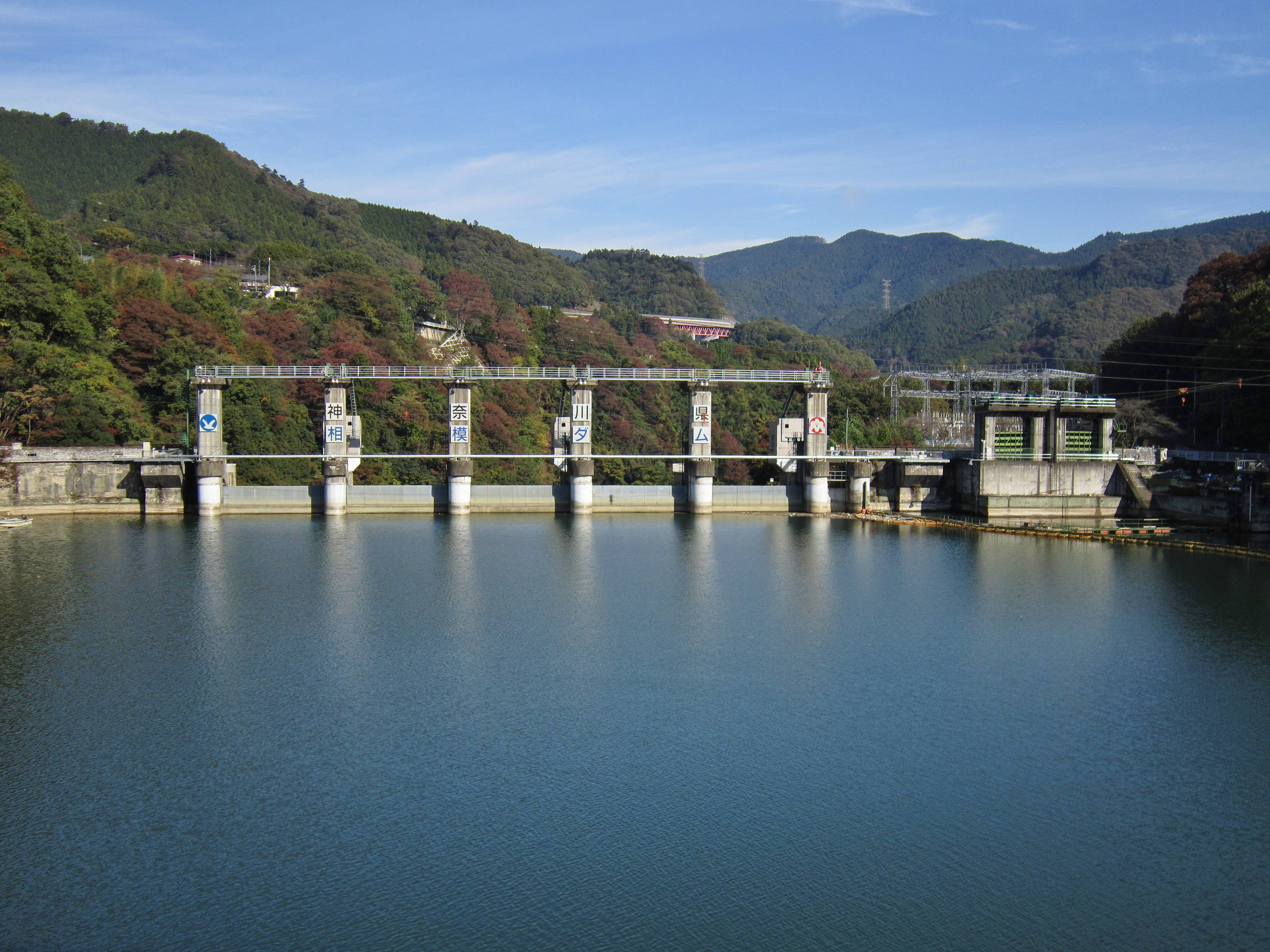 Sagami Dam.